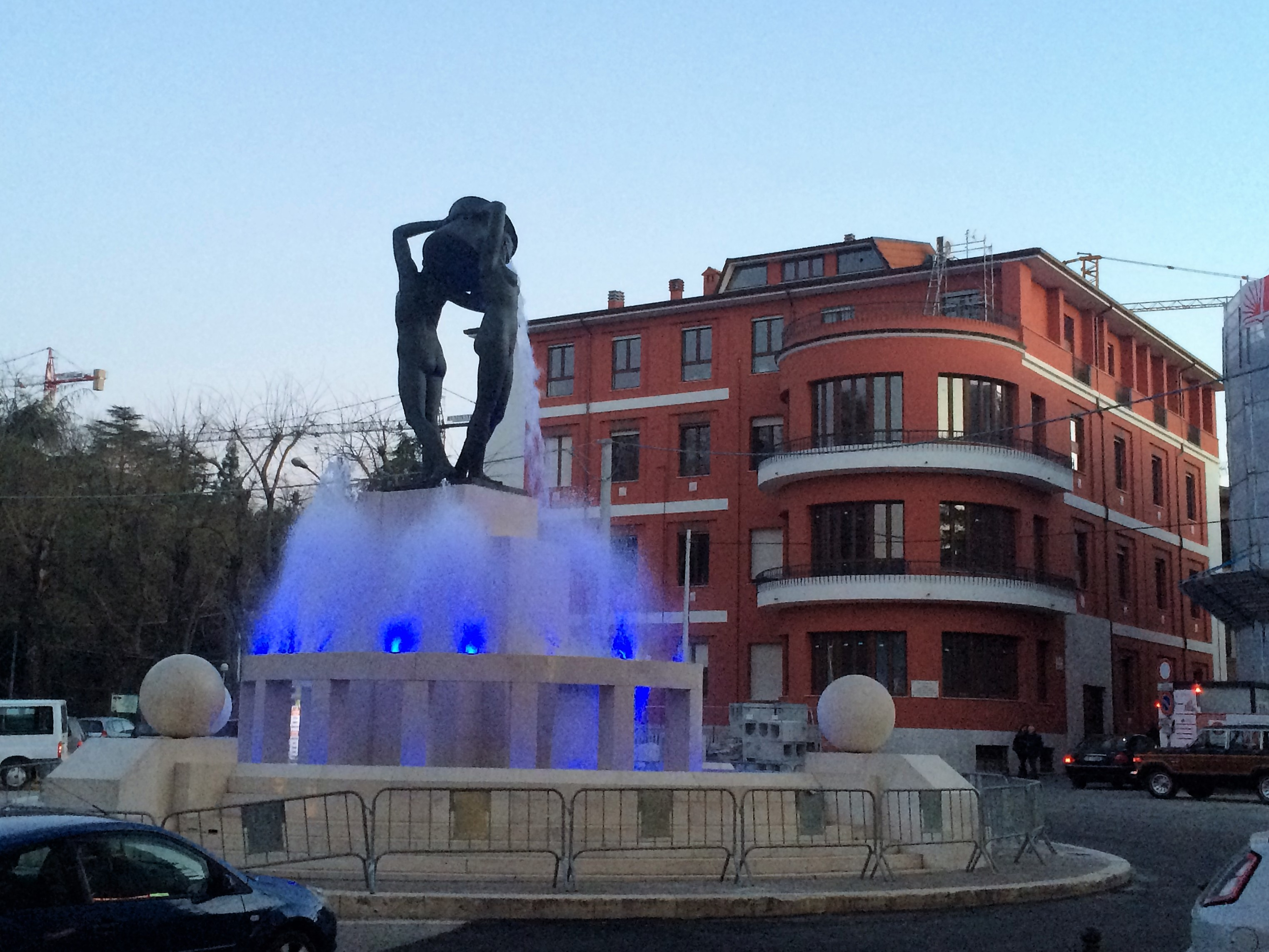 Palazzo Leone in L'Aquila